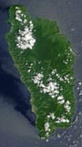 Satellite image of Dominica in September 2002.